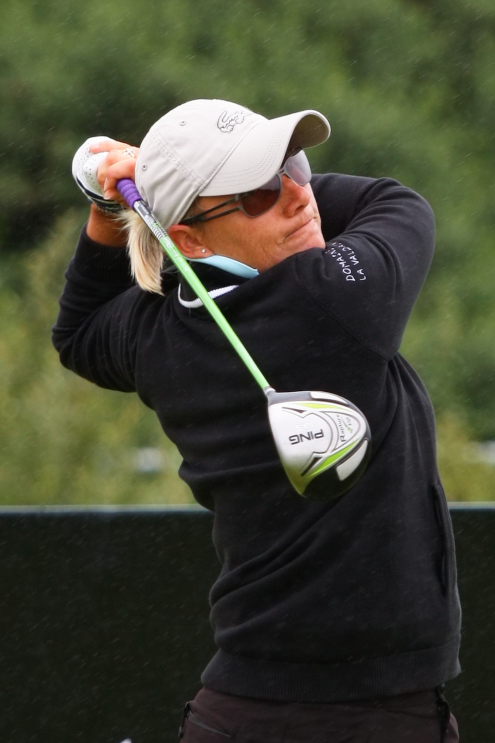 SOUTHPORT, UNITED KINGDOM - JULY 28: Virginie Lagoutte-Clement of France tees off on the 10th tee during third practice round before 2010 Ricoh Women's British Open held at Royal Birkdale on July 28, 2010 in Southport, England. (Photo by Wojciech Migda)